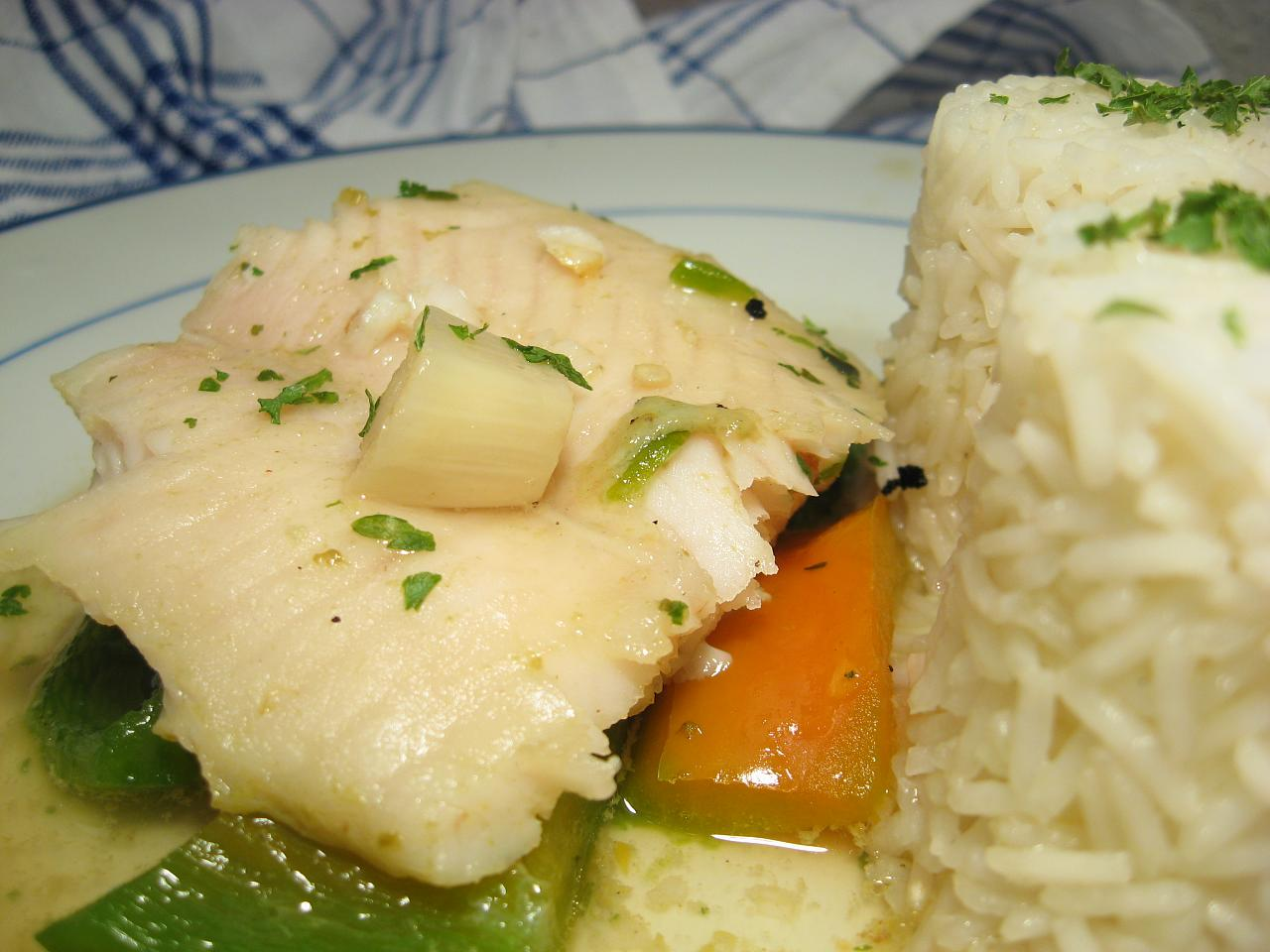 steamed, with green pepper and rice